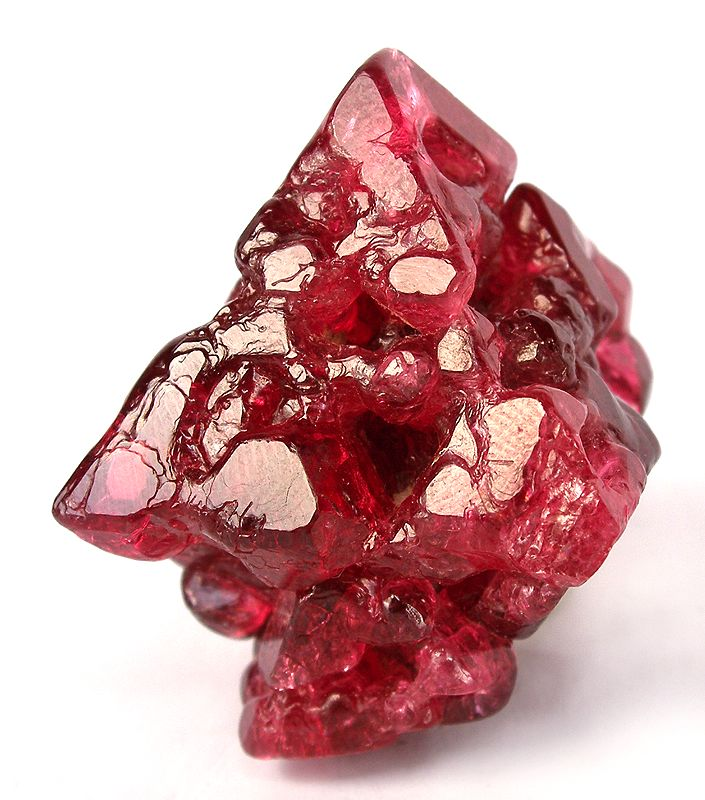 Spinel Locality: Luc Yen, Yenbai (Yen Bai) Province, Vietnam (Locality at ) Size: miniature, 3.4 x 3.3 x 3.1 cm Spinel This wonderful gem crystal is unique in my experience in that I have seen many of these "hoppered" spinel crystals before from Vietnam, but usually they have a dull lustre and are not gemmy. The combination of gemminess, lustre, and surreal sculptural form really makes this crystal special and dramatic. It is a floater, complete 360 degrees, all around. It is exceptionally equant for a crystal of such size, with under five percent variation on the three axes. Overall, for impact, its just one of the most interesting pieces I have yet seen from Vietnam. Mined in 2005 and part of a large lot I bought at the time.